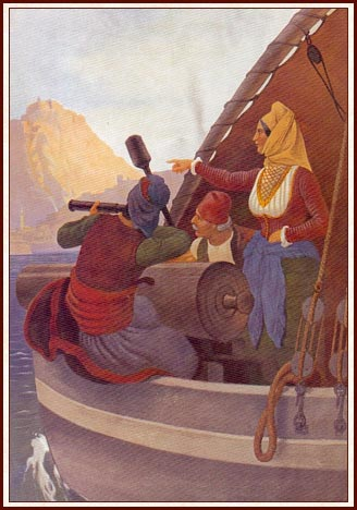 Painting of Laskarina Bouboulina by Peter von Hess